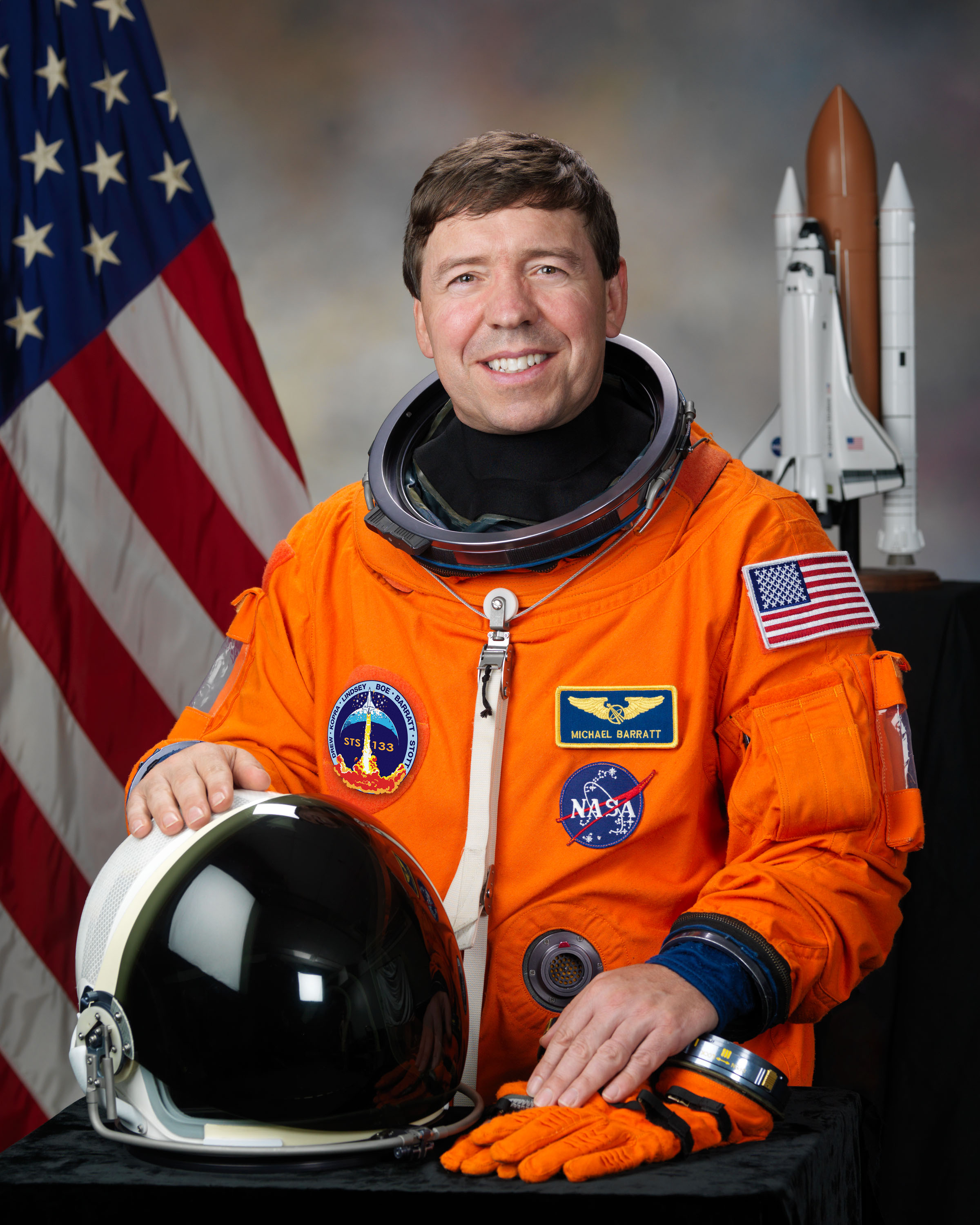 NASA astronaut Michael R. Barratt, mission specialist.